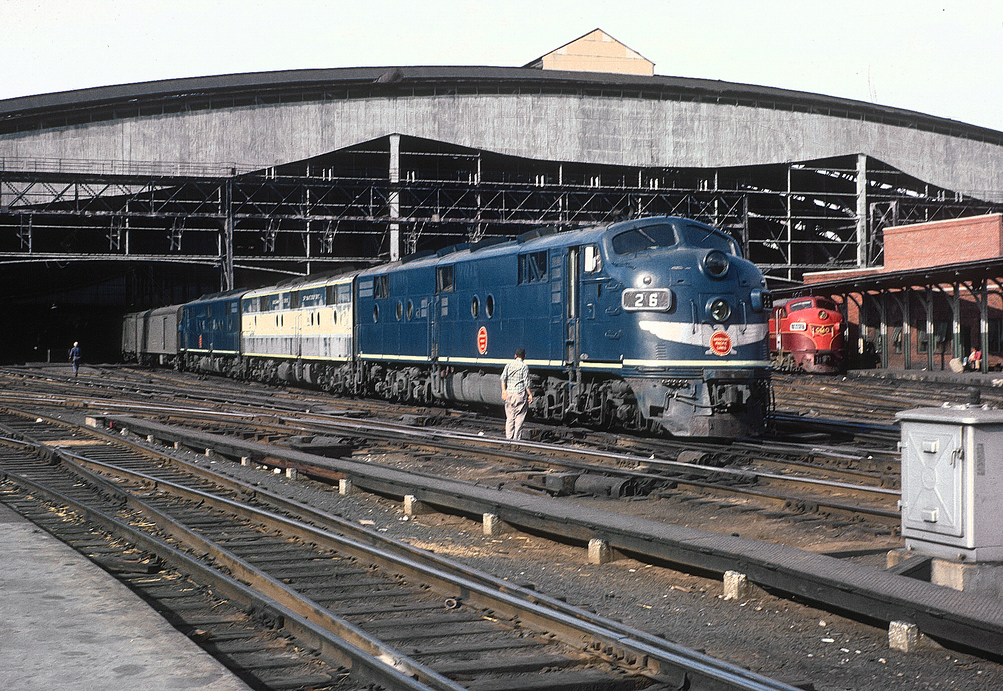 Missouri Pacific E7A 26 with Train 11, The Colorado Eagle, waiting to depart. GM&O E7A 102 with Train 4, The Limited, on April 17, 1963 A Roger Puta Photograph